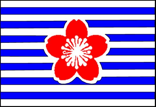 Flag of Coastal Safety Force of Japan (1952-1954)